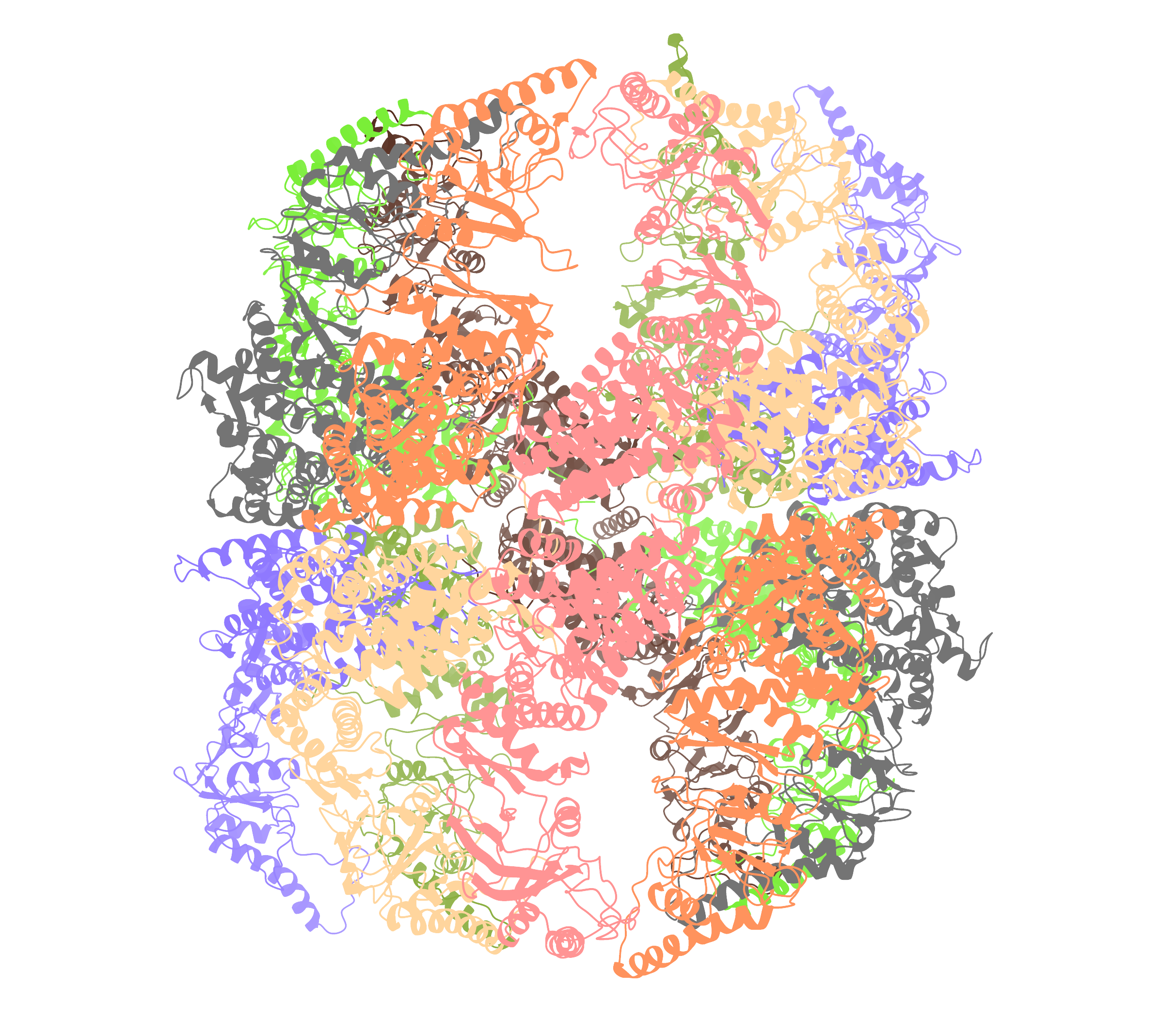 Structure of Saccharomyces cerevisiae TRiC bound to AMP-PNP, solved by cryo-EM at 4.6 Å resolution.